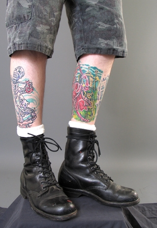 Tattoos by Martin Roberson of Lucky Stars Tattoo